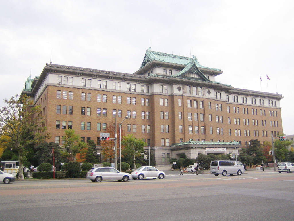 Aichi Prefectural Office (愛知県庁 Aichi Kenchō), in Nagoya, Aichi, Japan